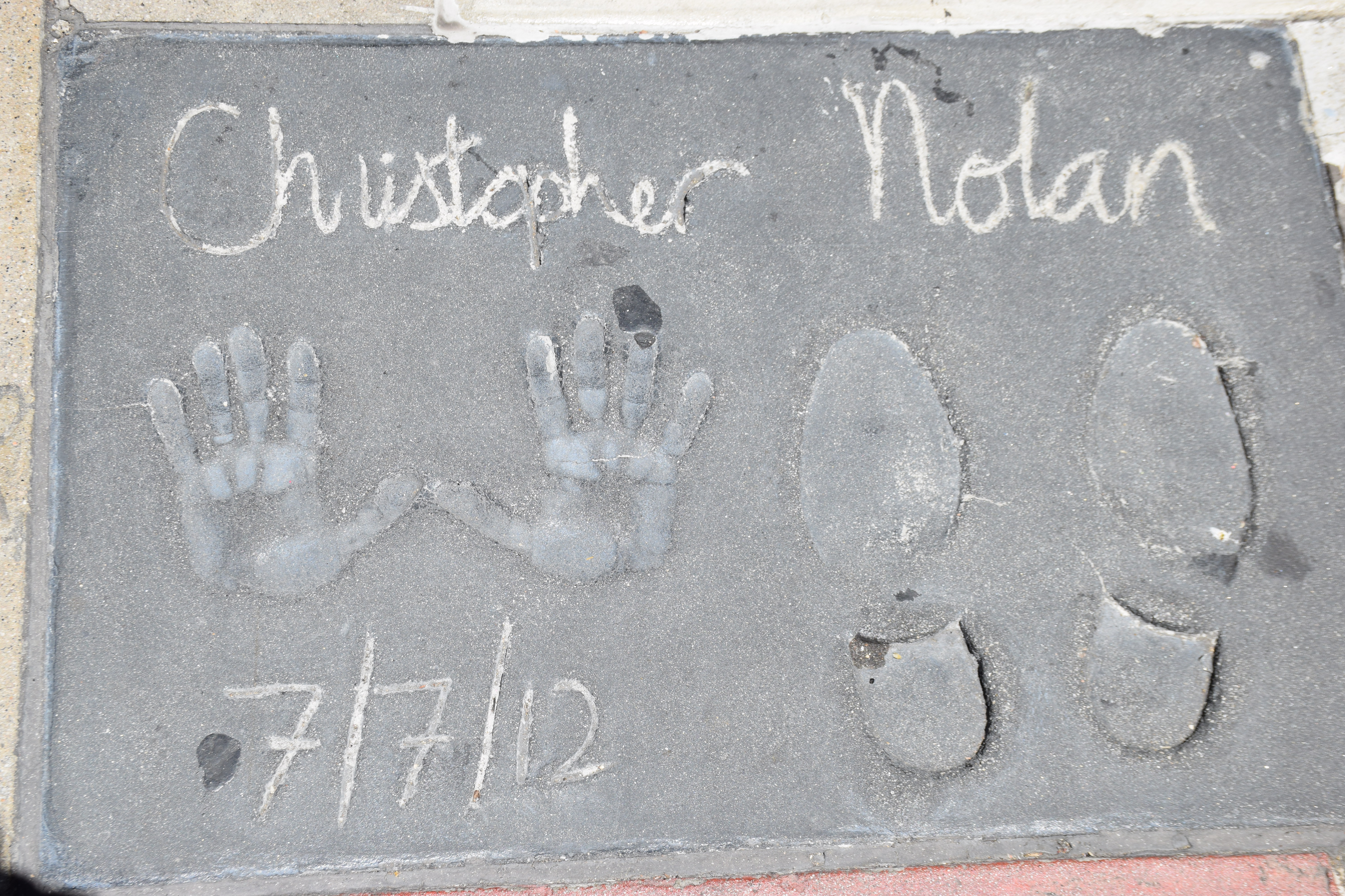 Nolan's hand and footprints at the TCL Chinese Theatre